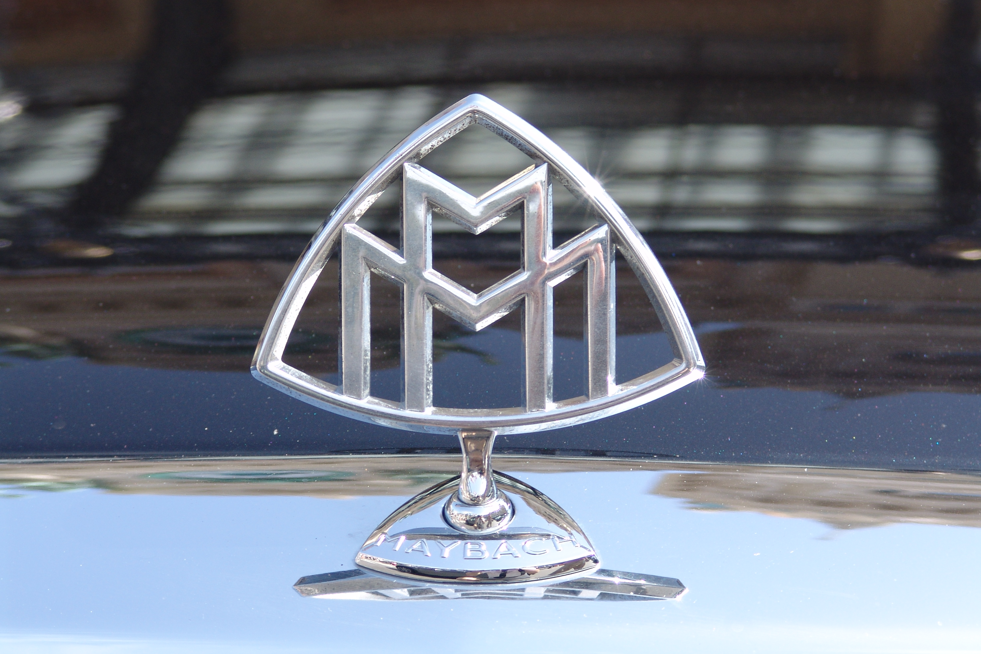 the Maybach symbol